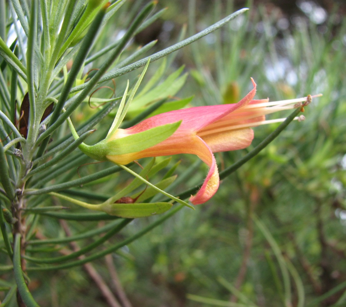 Eremophila oldfieldii, Maranoa Gardens, Balwyn, Victoria, Australia